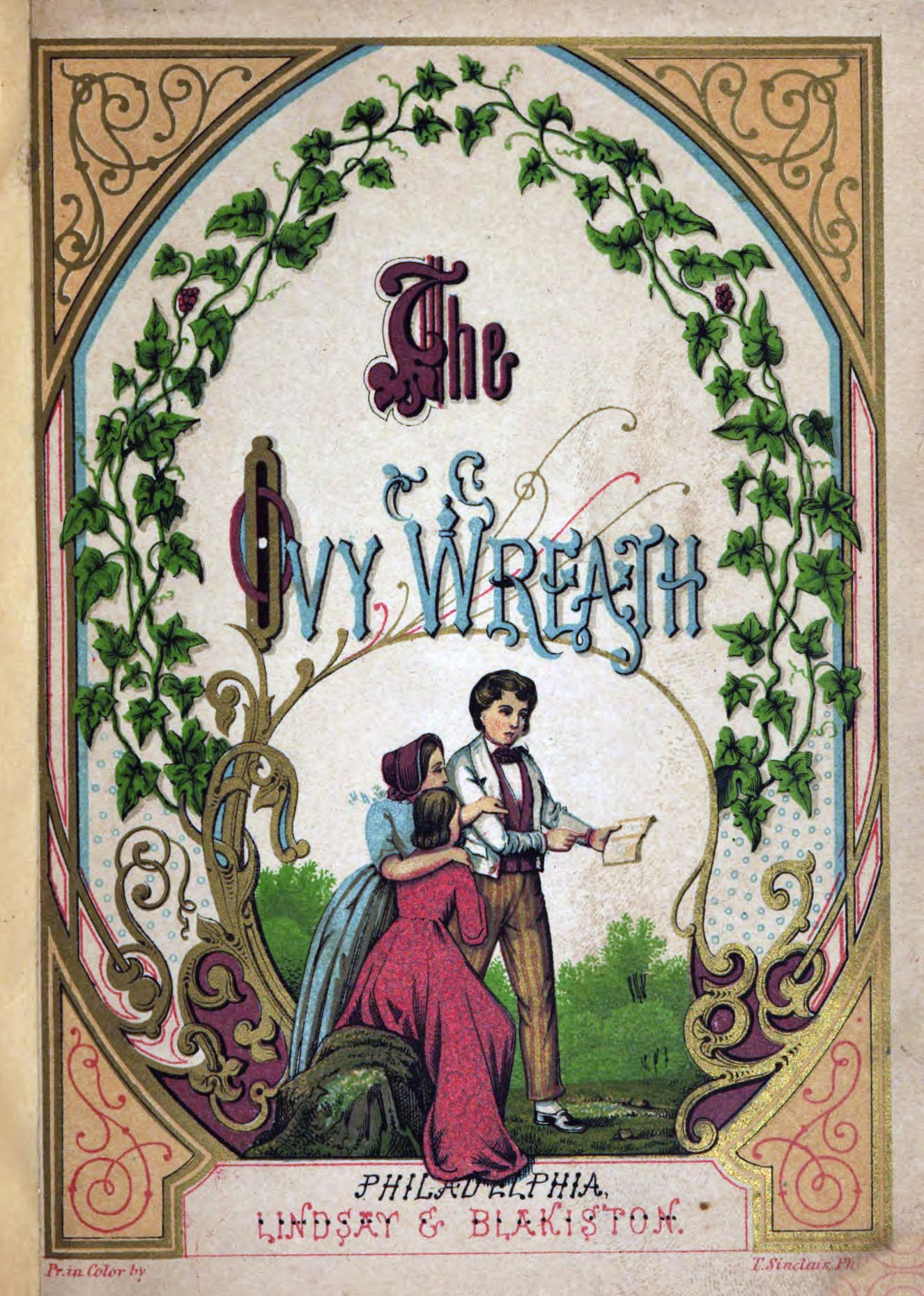 An illustration for Mary Hughes' The Ivy Wreath